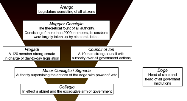 Chart of the government institutions in the Venetian republic, ca. A.D. 1400